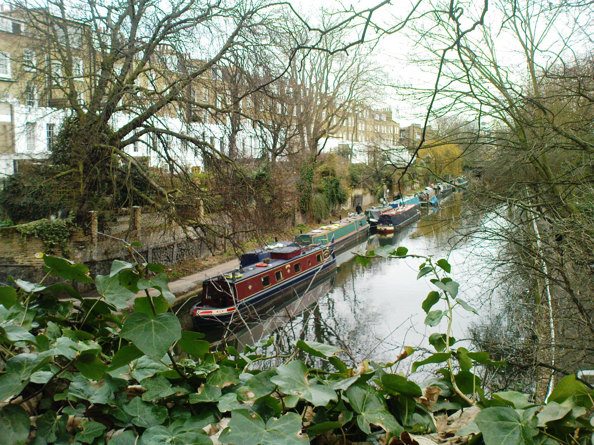 Islington Regent's Сanal